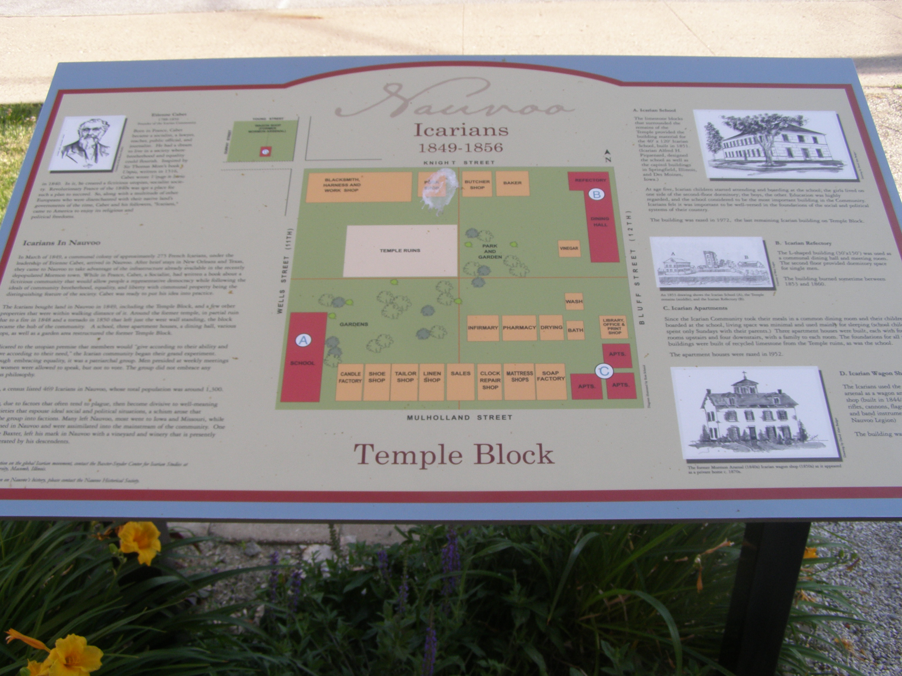 Historic Information about Icarians (1849-1856) .